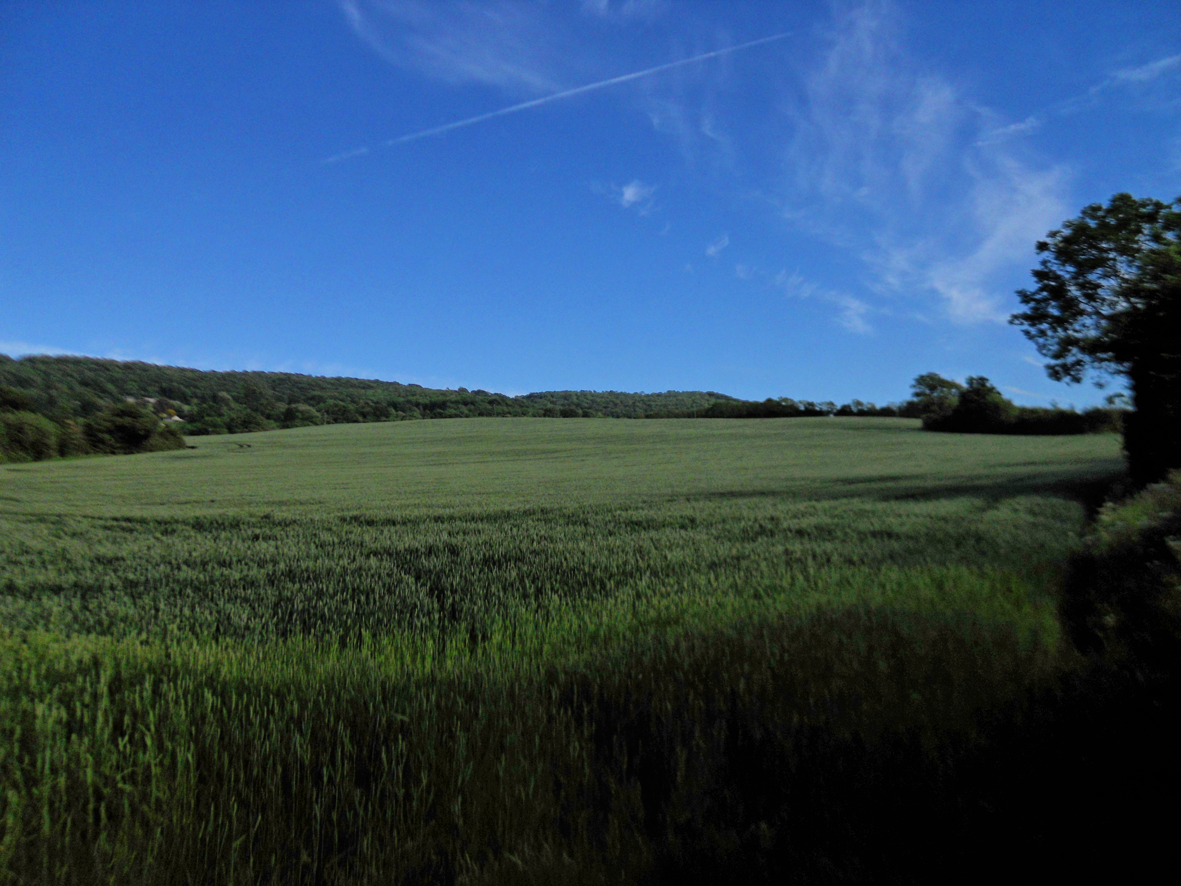 Coopers Edge ~ Surrounding Area